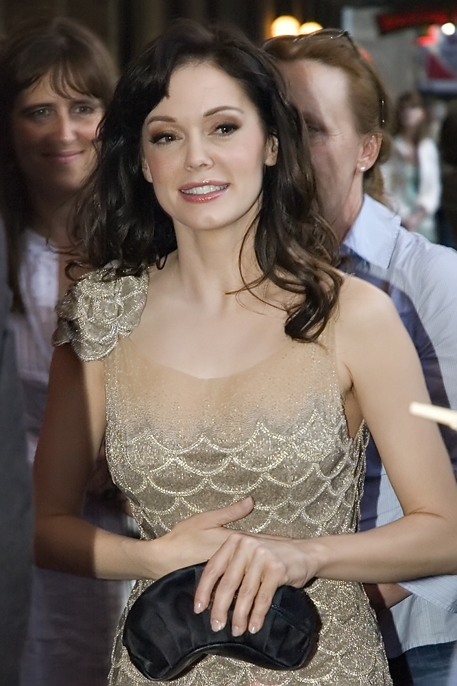 Actress Rose McGowan at the premiere of Grindhouse, Austin, Texas.